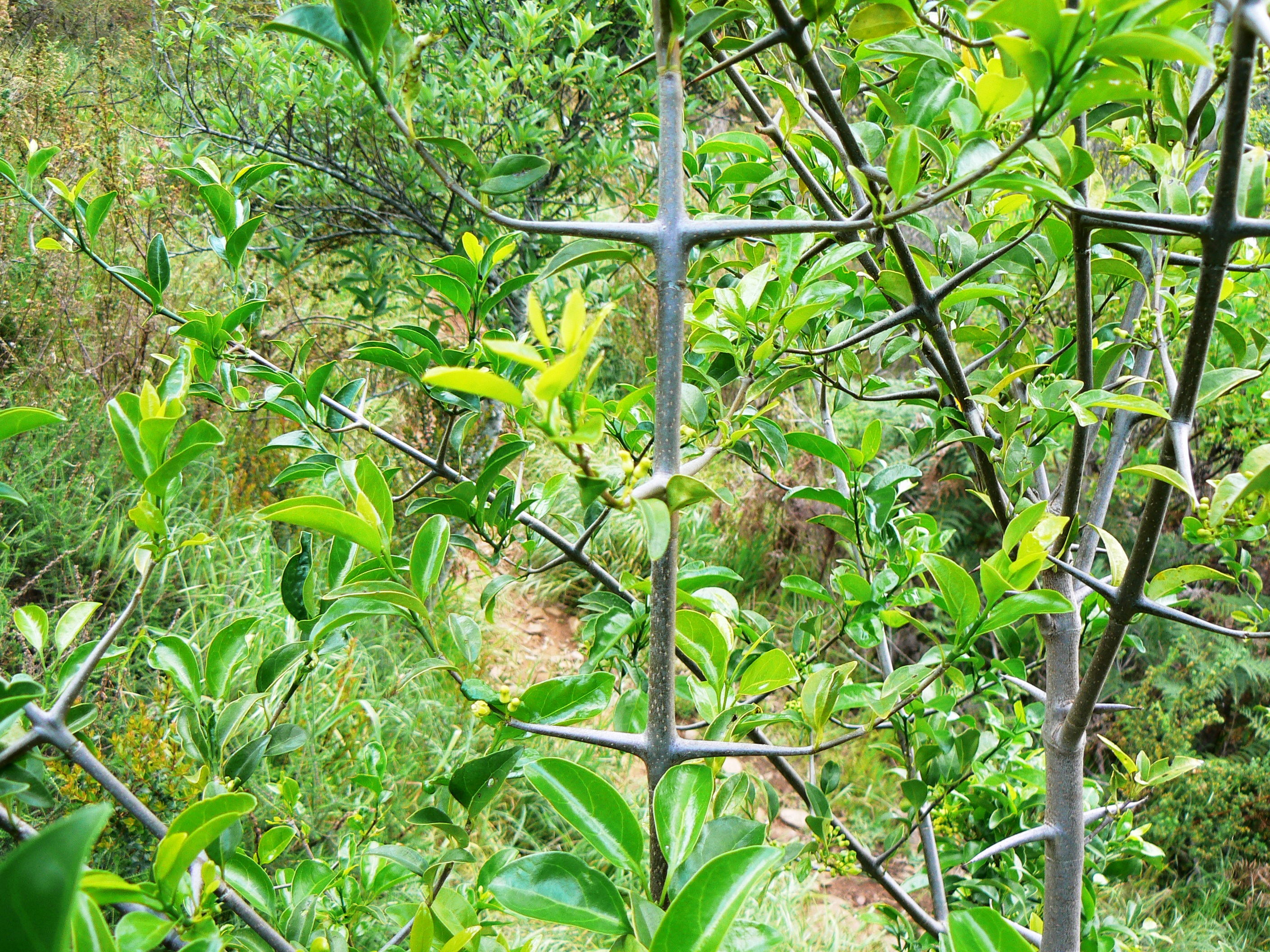 Canthium inerme - Cape Town